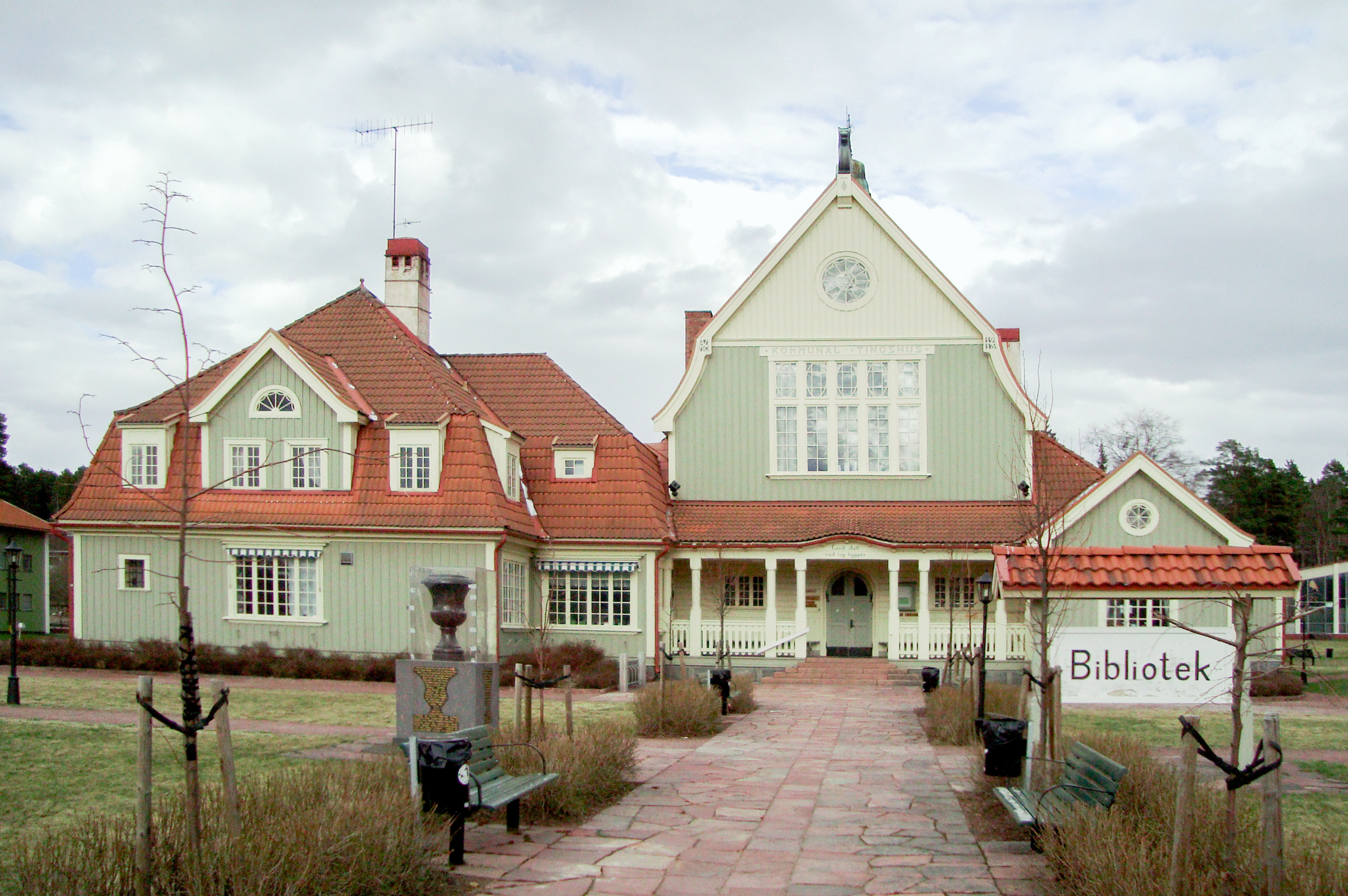 Former courthouse and municipality office, now library, Älvdalen, Sweden